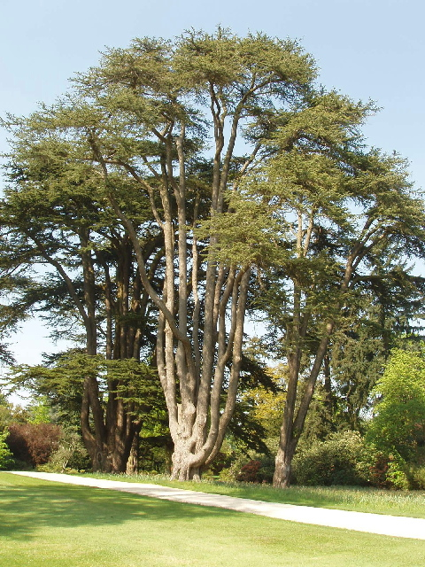 Cedar of Lebanon at Blenheim One of many fine trees in the Lower Park.